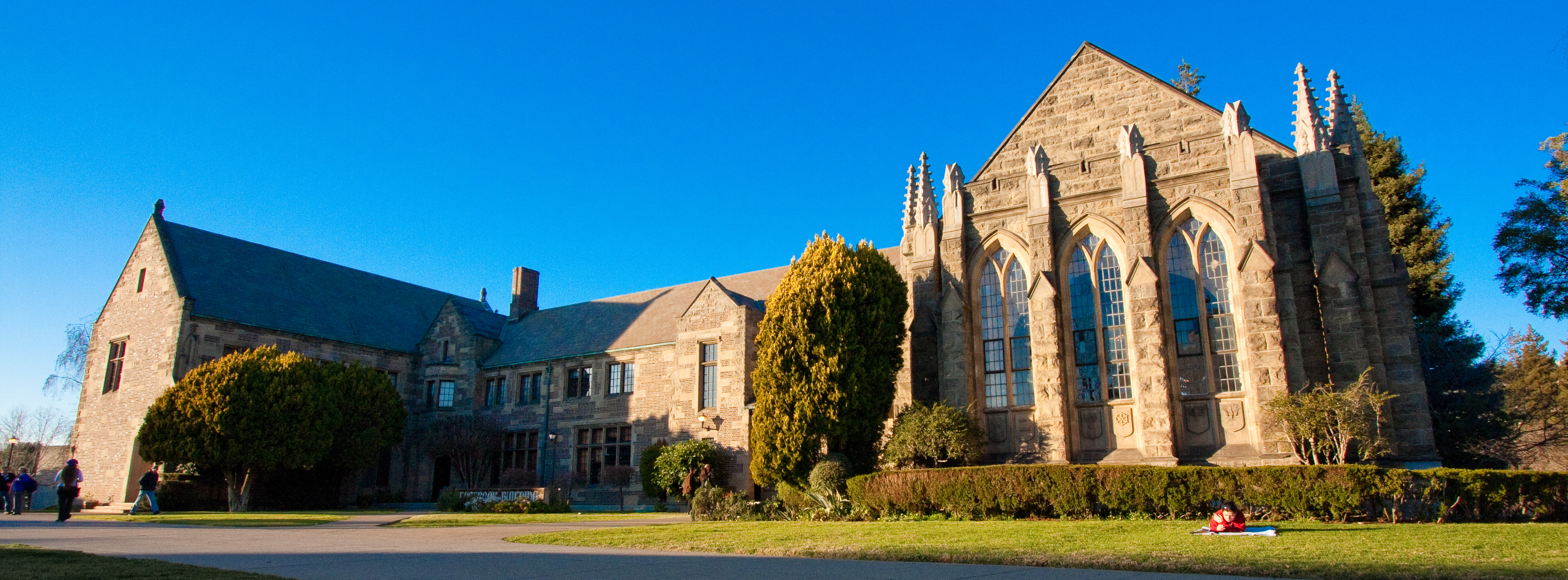 The Holbrook Building, main office and administrative building on the campus of the Pacific School of Religion in Berkeley, California.